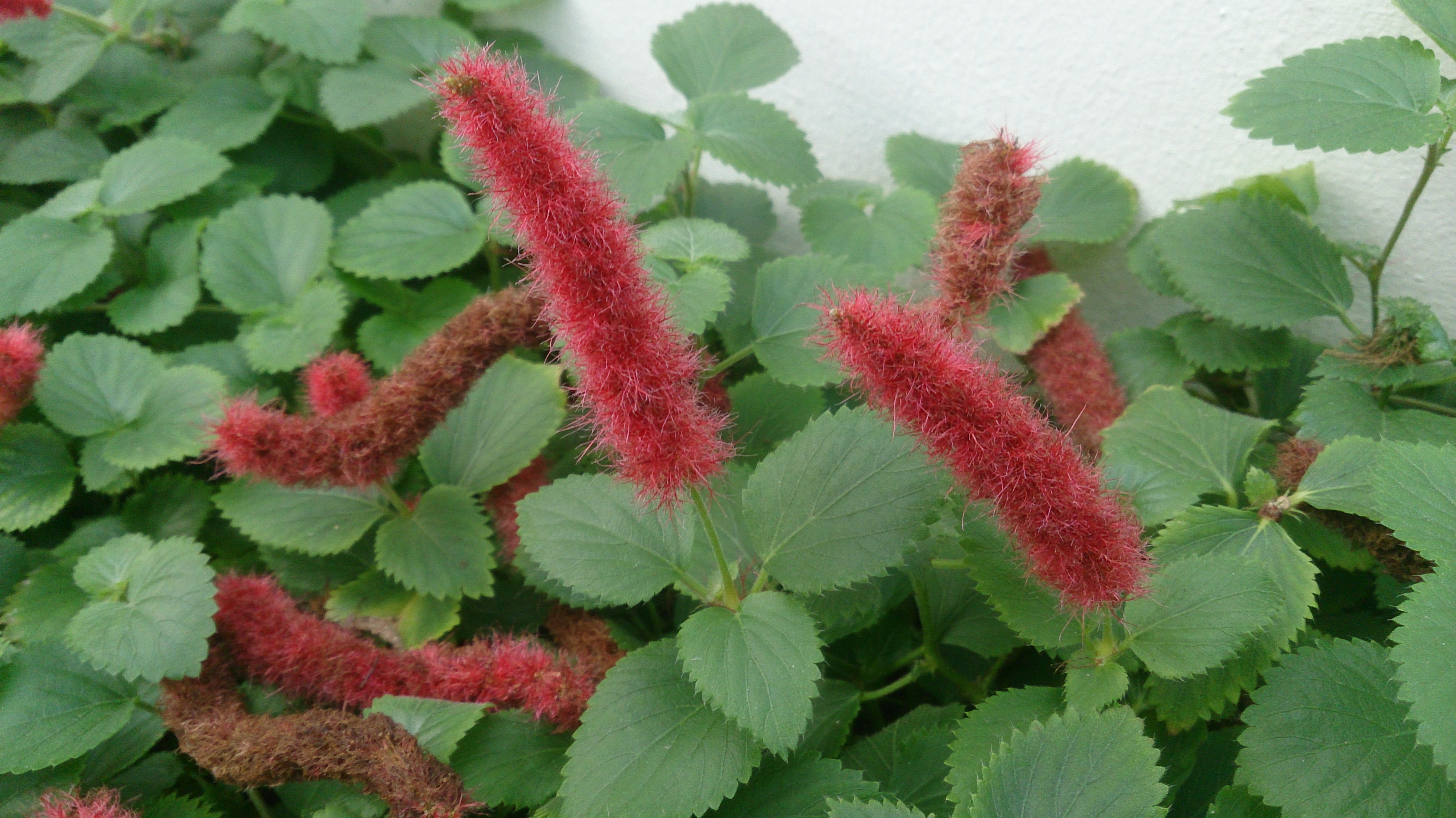 Acalypha chamaedrifolia. Synonyms: A. reptans. Common names: Red Cat's Tail. Strawberry Firetail. Dwarf Cat Tail. There is another species: Acalypha hispida (Red Hot Cat's Tail) which has longer red tails.